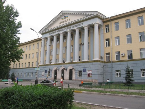 Main building of Donbass State Technical University (Ukraine)